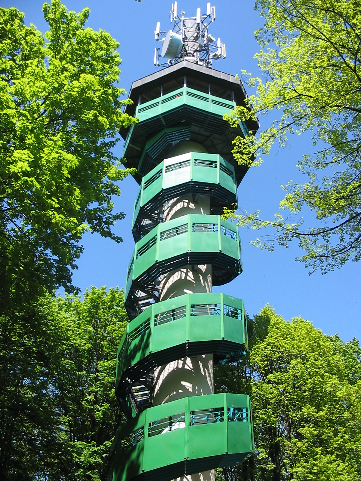 Multipurpose tower on Bílá hora Mt. (557 m) near Kopřinice, Czech Republic. Total height 43 m, the lookout platform is 26 m above ground.